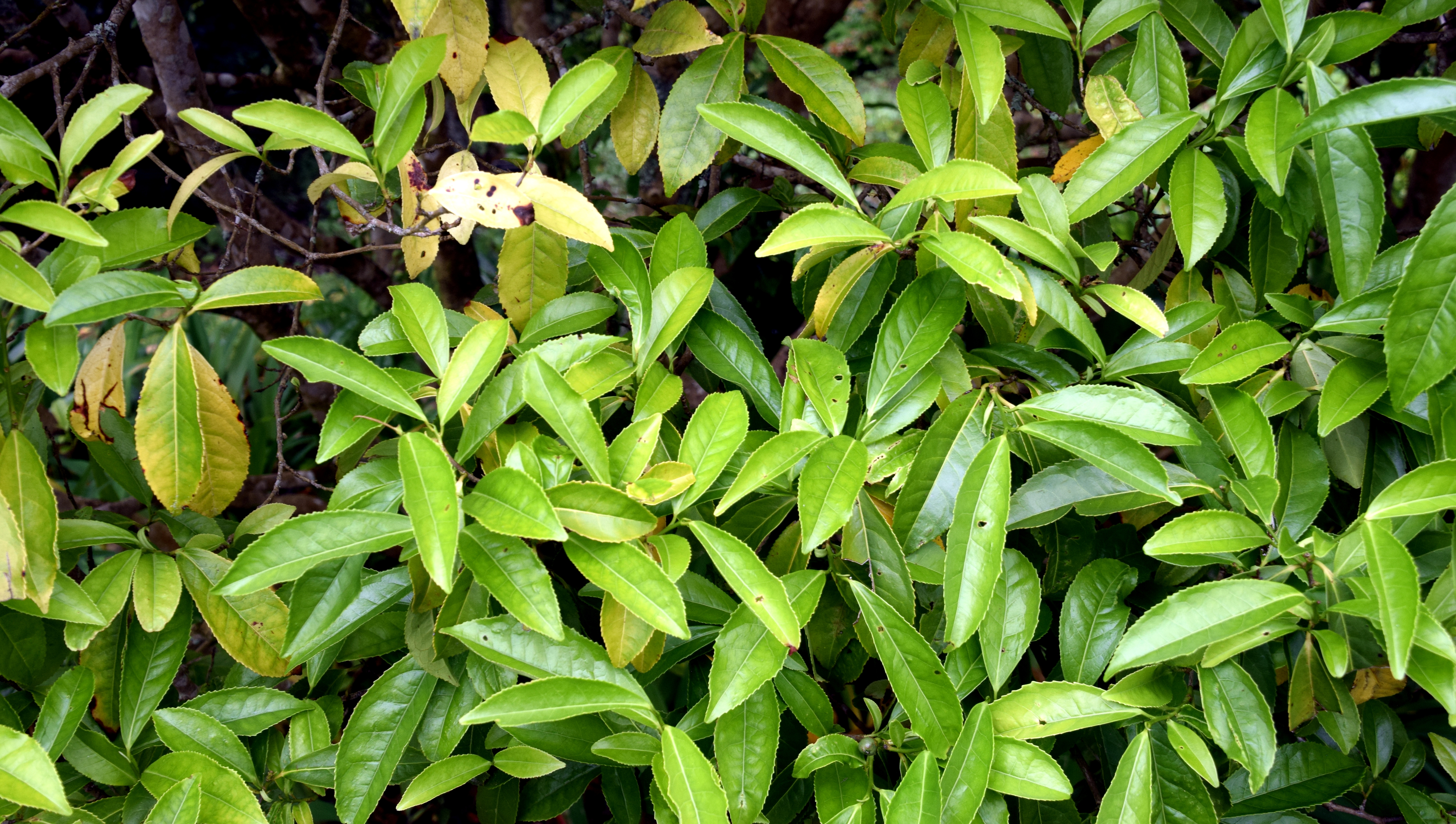 Camellia sinensis var. assamica in Auckland Botanic Gardens, Manurewa, South Auckland, New Zealand